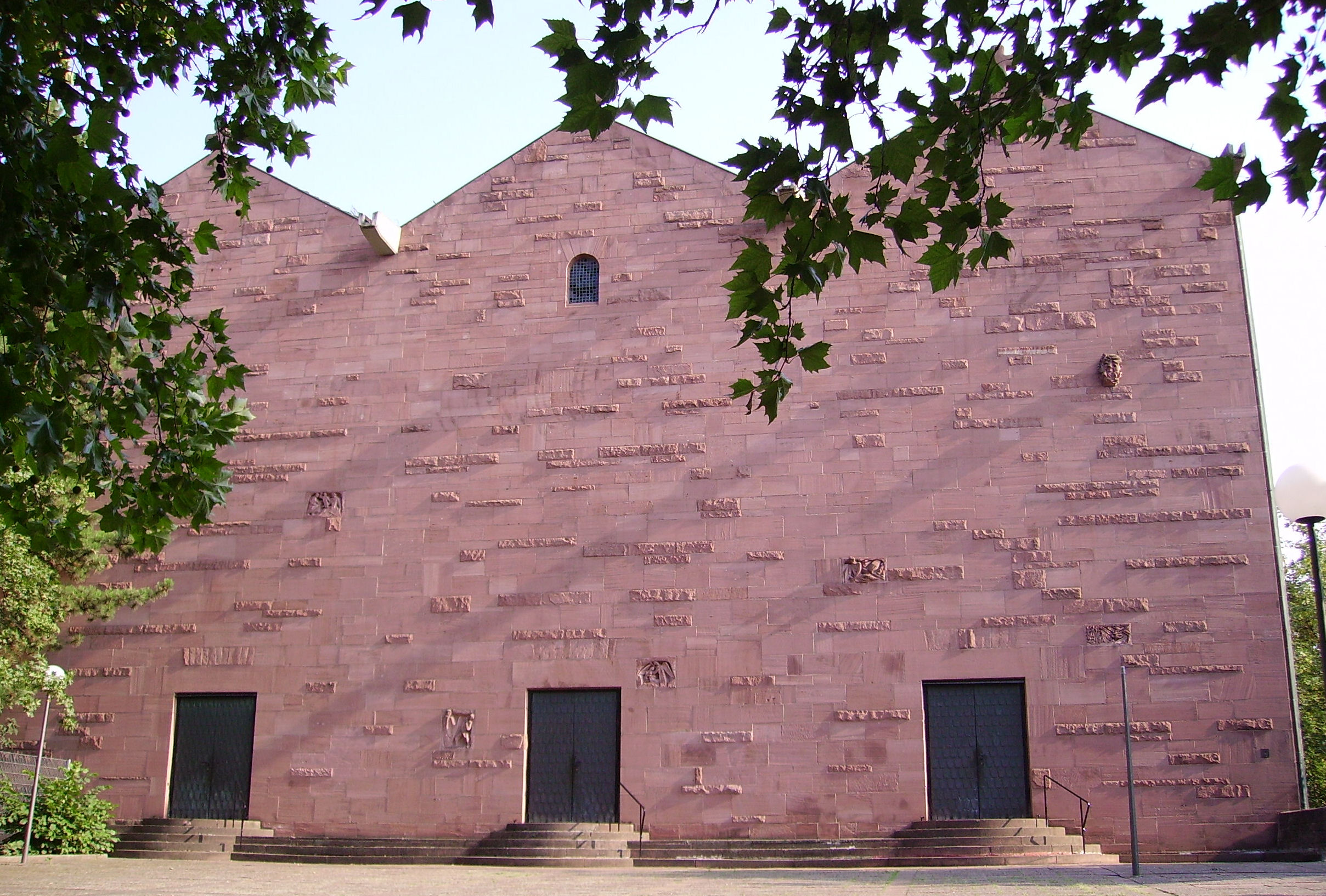 church in Ludwigshafen, Germany (July 2006)